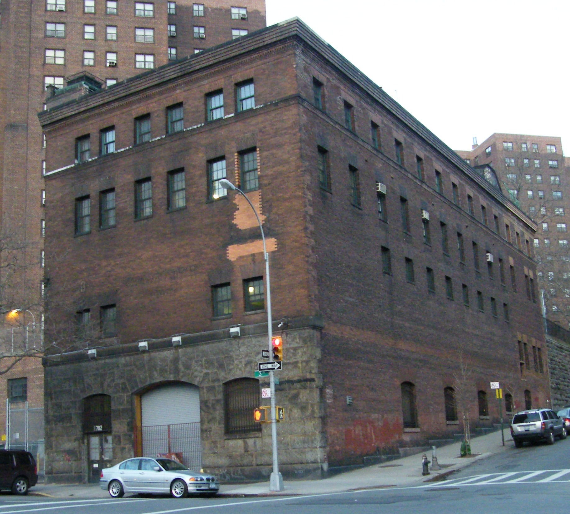 Power substation #7, Third Ave & 99th, on National Register of Historic Places in New York City